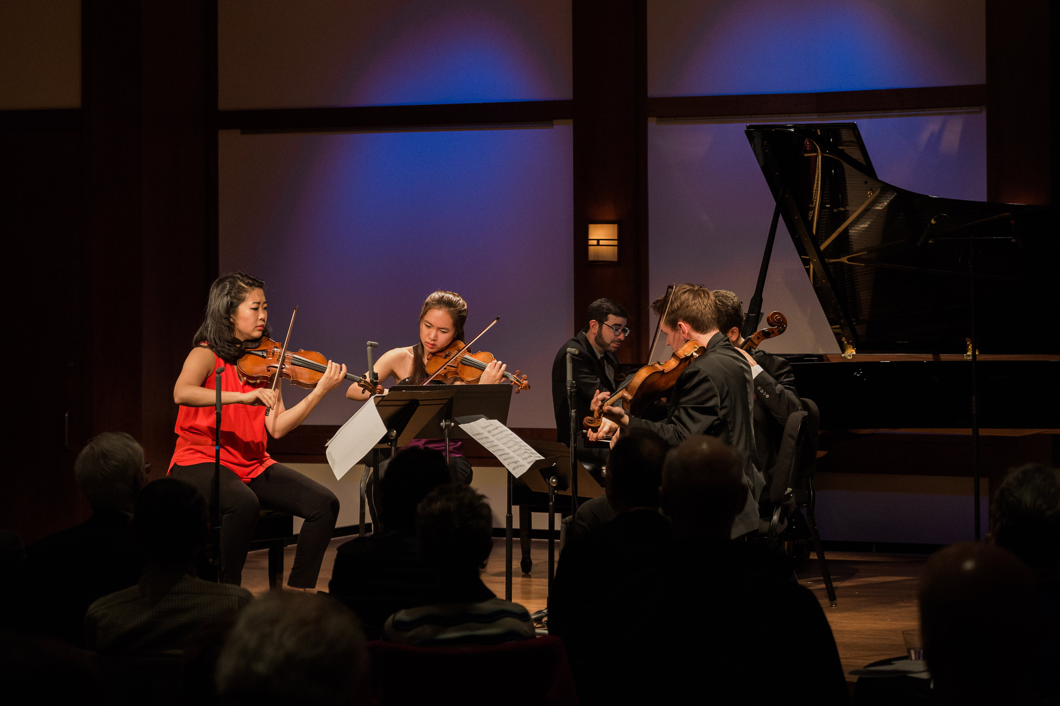 Chamber Music Society artists performing in the Daniel and Joanna S. Rose Studio.